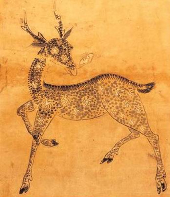 The picture titled "Jangsaeng.hwarakdo" is painted in a way of Minhwa, Korean folk painting.